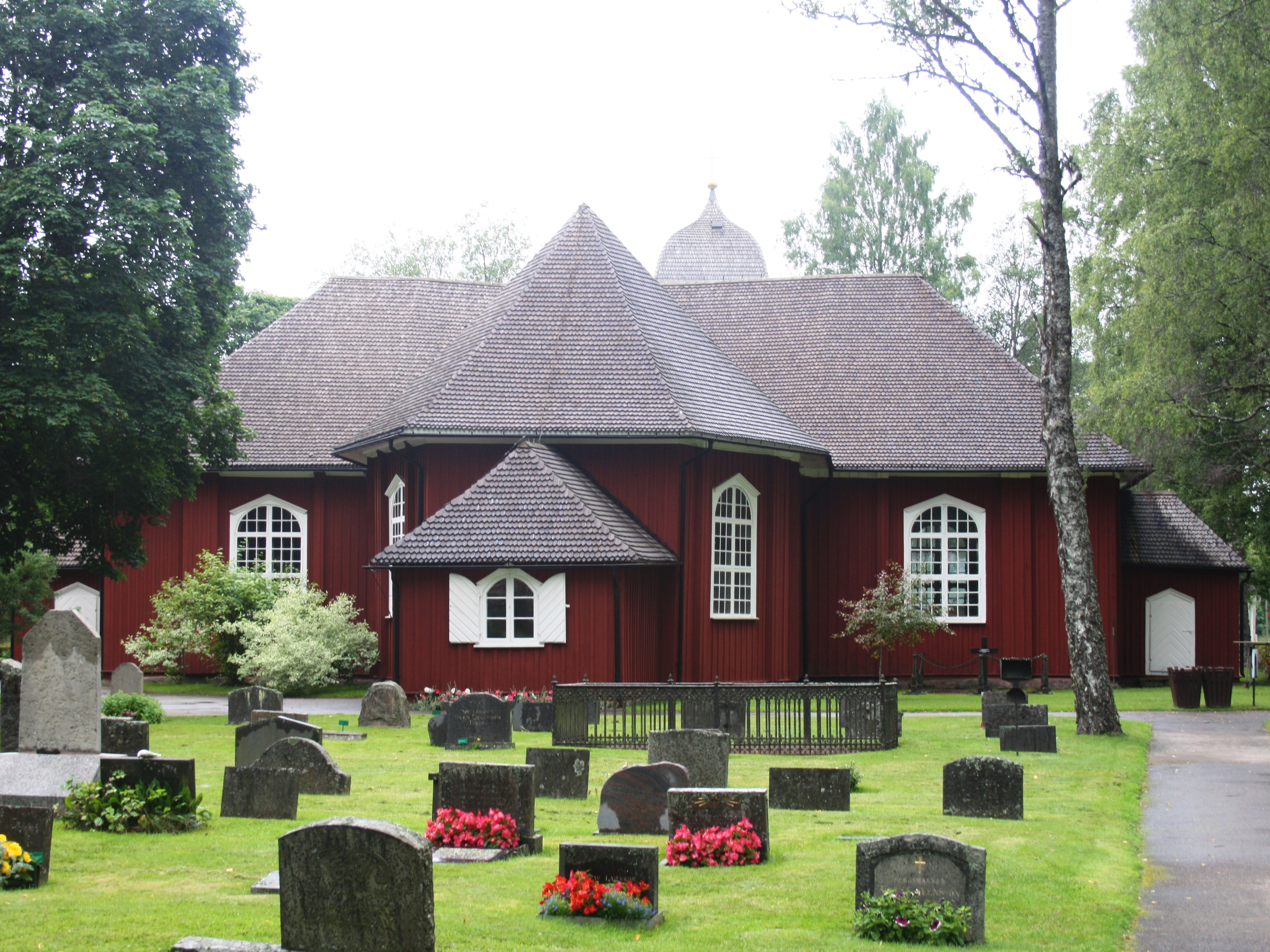 Nordmark, Filipstad municipality, Sweden. Church from East.